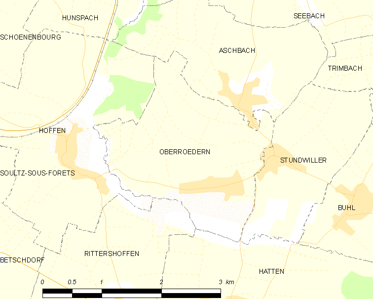 Map of French municipality